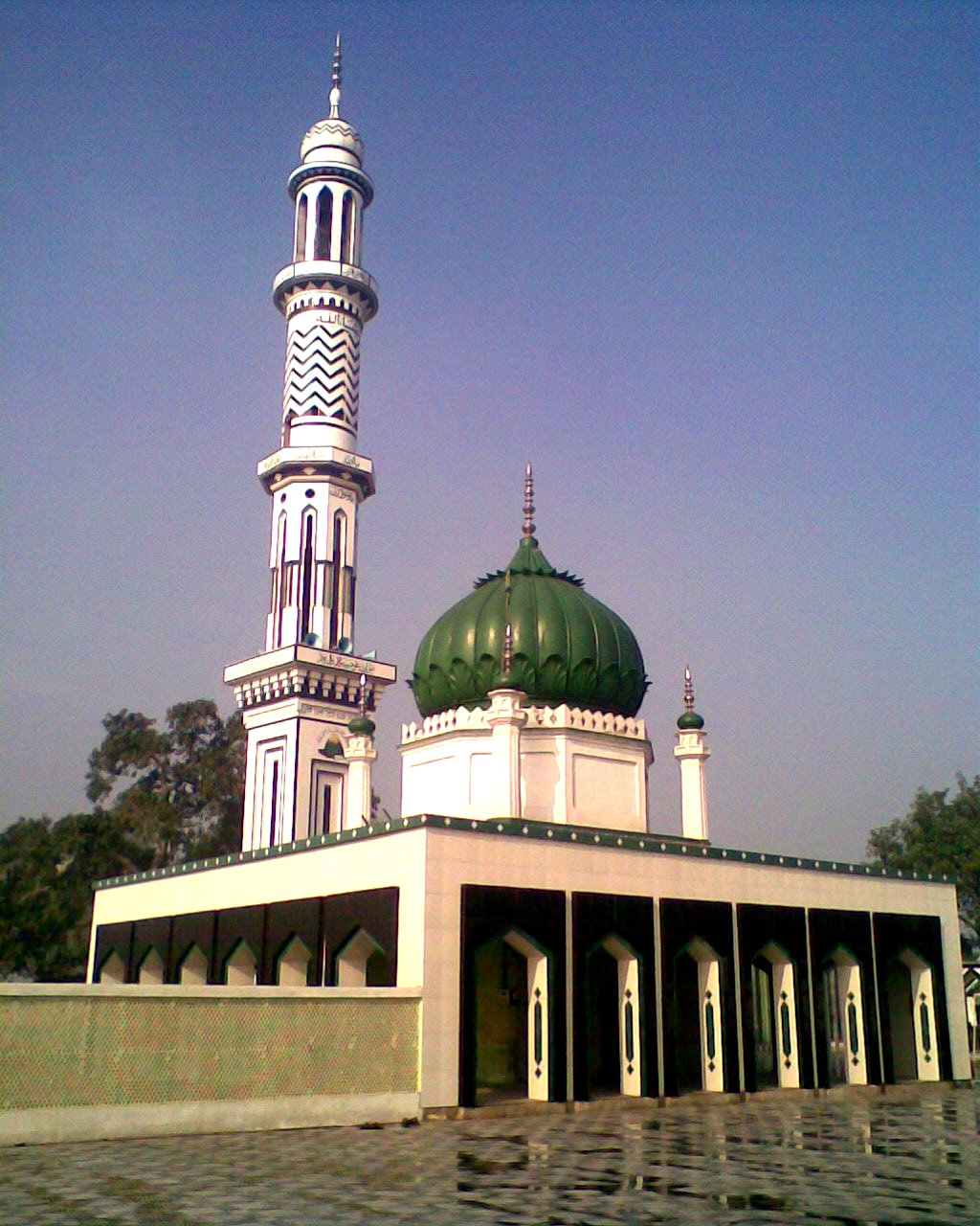 — Free Art license (info) SUNDAS AMIN KA DARBAR